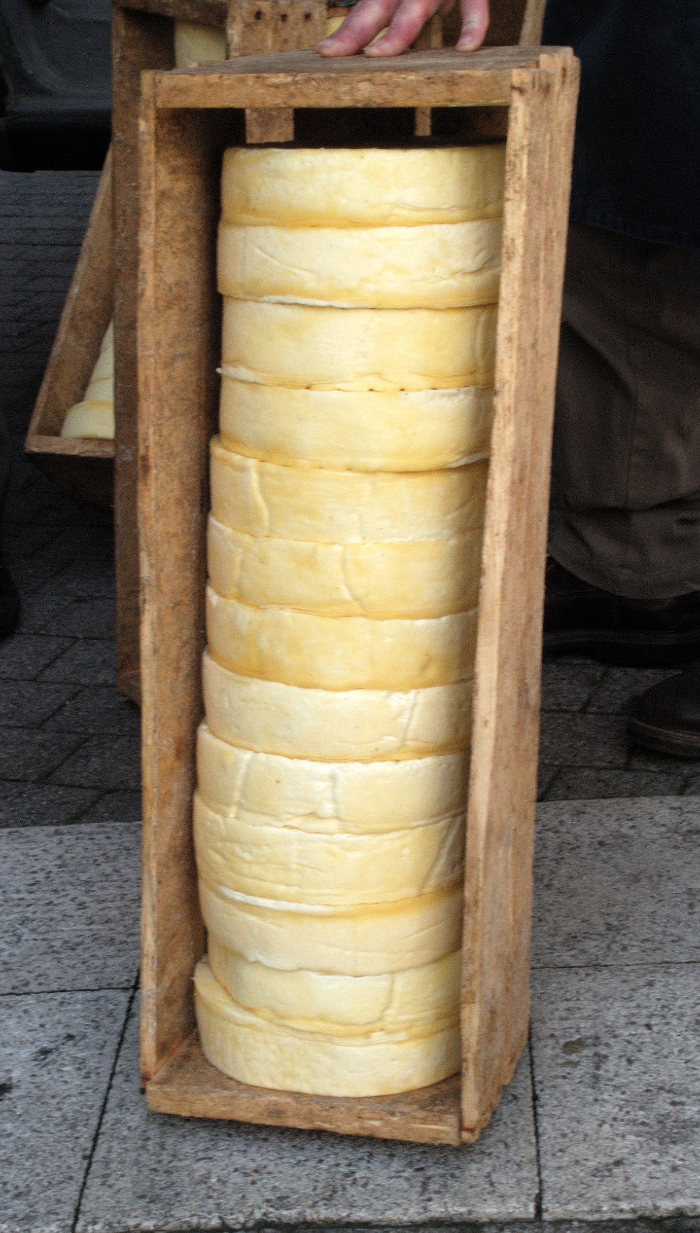 Box of saint nectaire before maturing (picture taken Clermont-Ferrand Puy-de-Dôme)